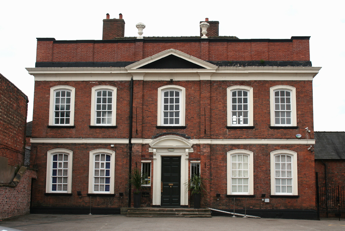 9 Mill Street, Nantwich, Cheshire